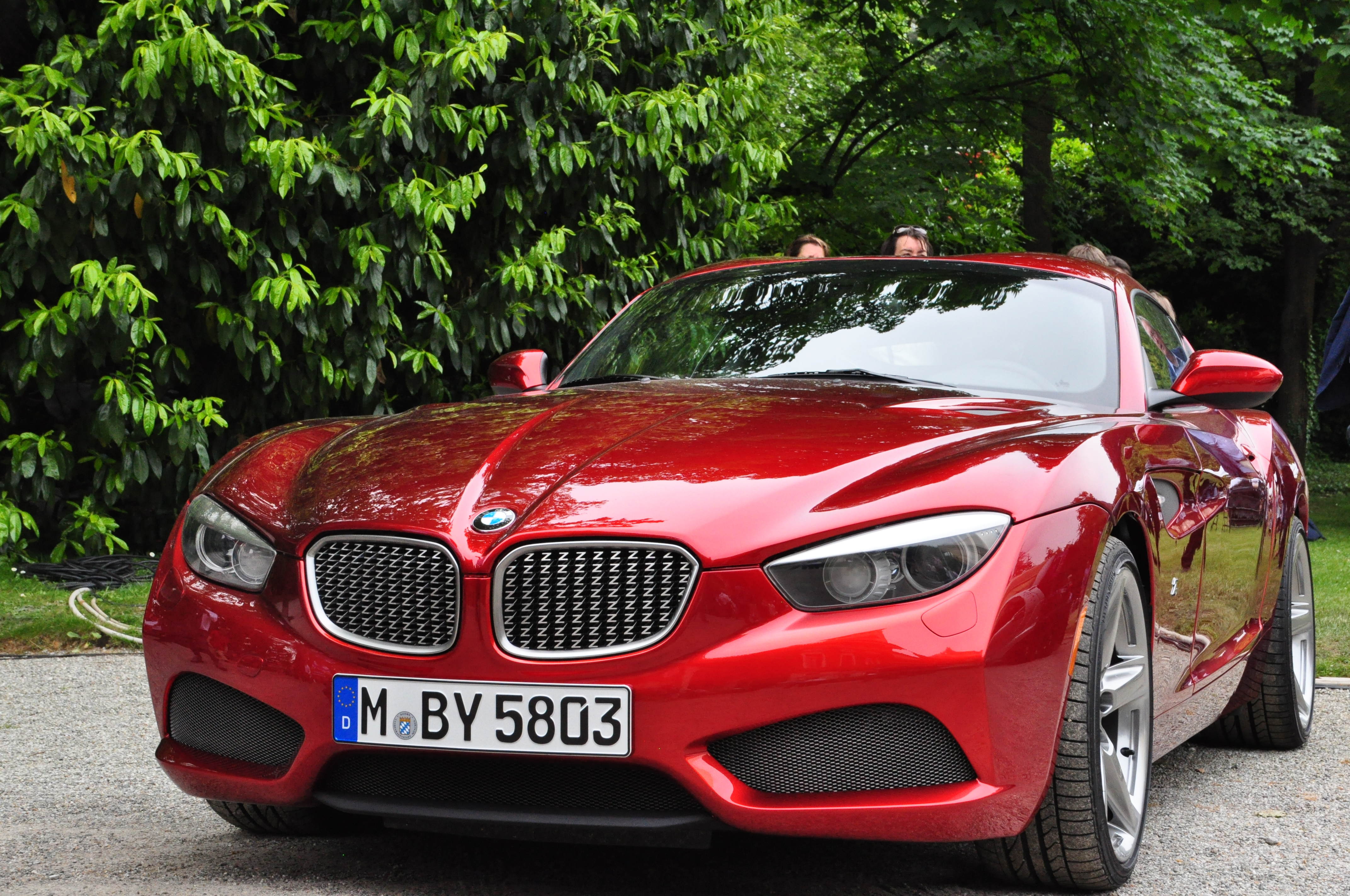 BMW Z4 Zagato Coupe at Concorso d'Eleganza 2012 Cernobbio